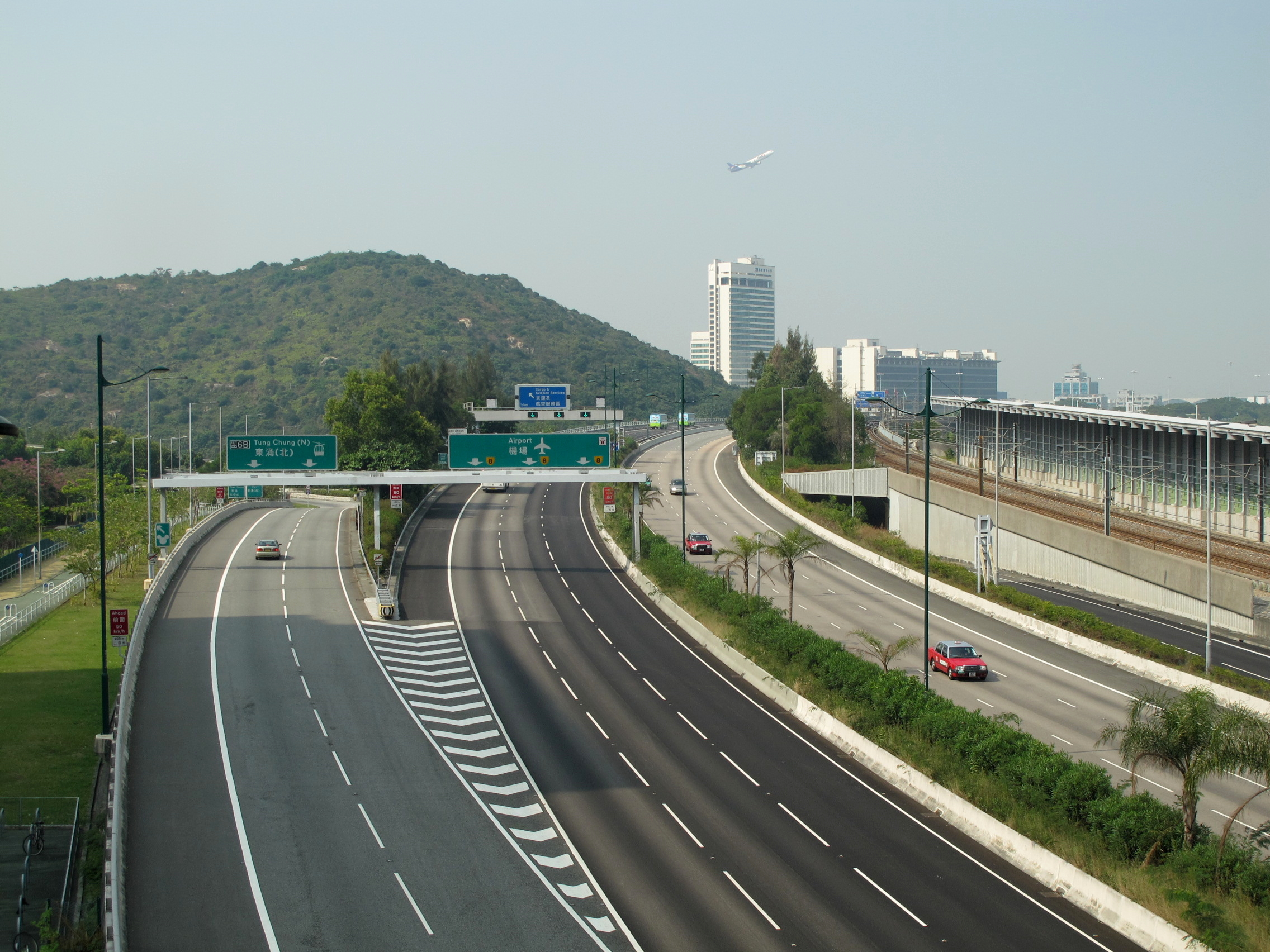 North Lantau Highway 北大嶼山公路